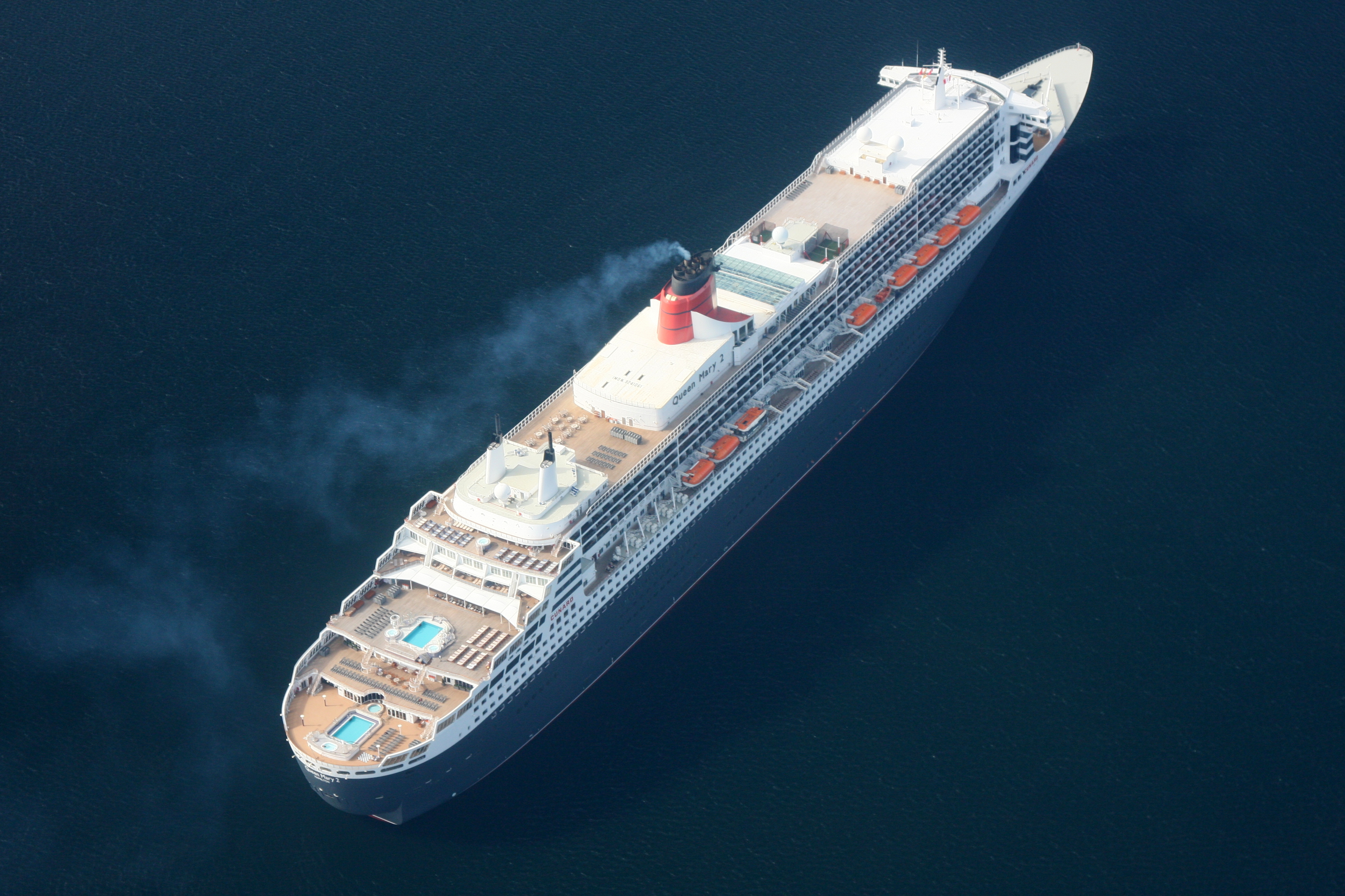 The RMS Queen Mary 2 visiting Sydney, Cape Breton Island on October 1st, 2016. RMS Queen Mary 2 is the flagship of Cunard Line and is one of the larges cruise ships in the world.She is an Ocean Liner, built for crossing the Atlantic Ocean, though she is regularly used for cruising; in the winter season she cruises from New York to the Caribbean on twelve- or thirteen-day tours.